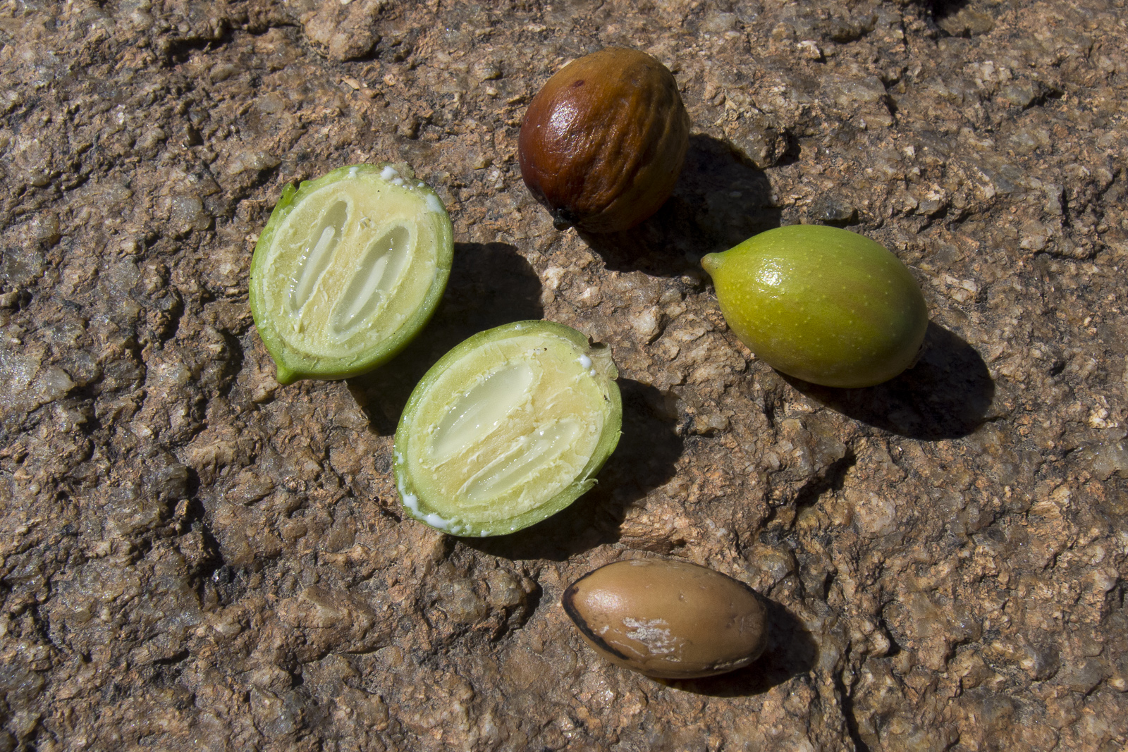 Unripe, open argan fruits